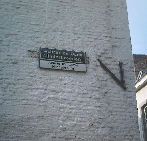 The Achter de Oude Mindebroeders (Dutch) / Achter d'n Awwe Minnebreure (Limburgish (Maastrichtian variant)) street in Maastricht, Limburg, Netherlands.